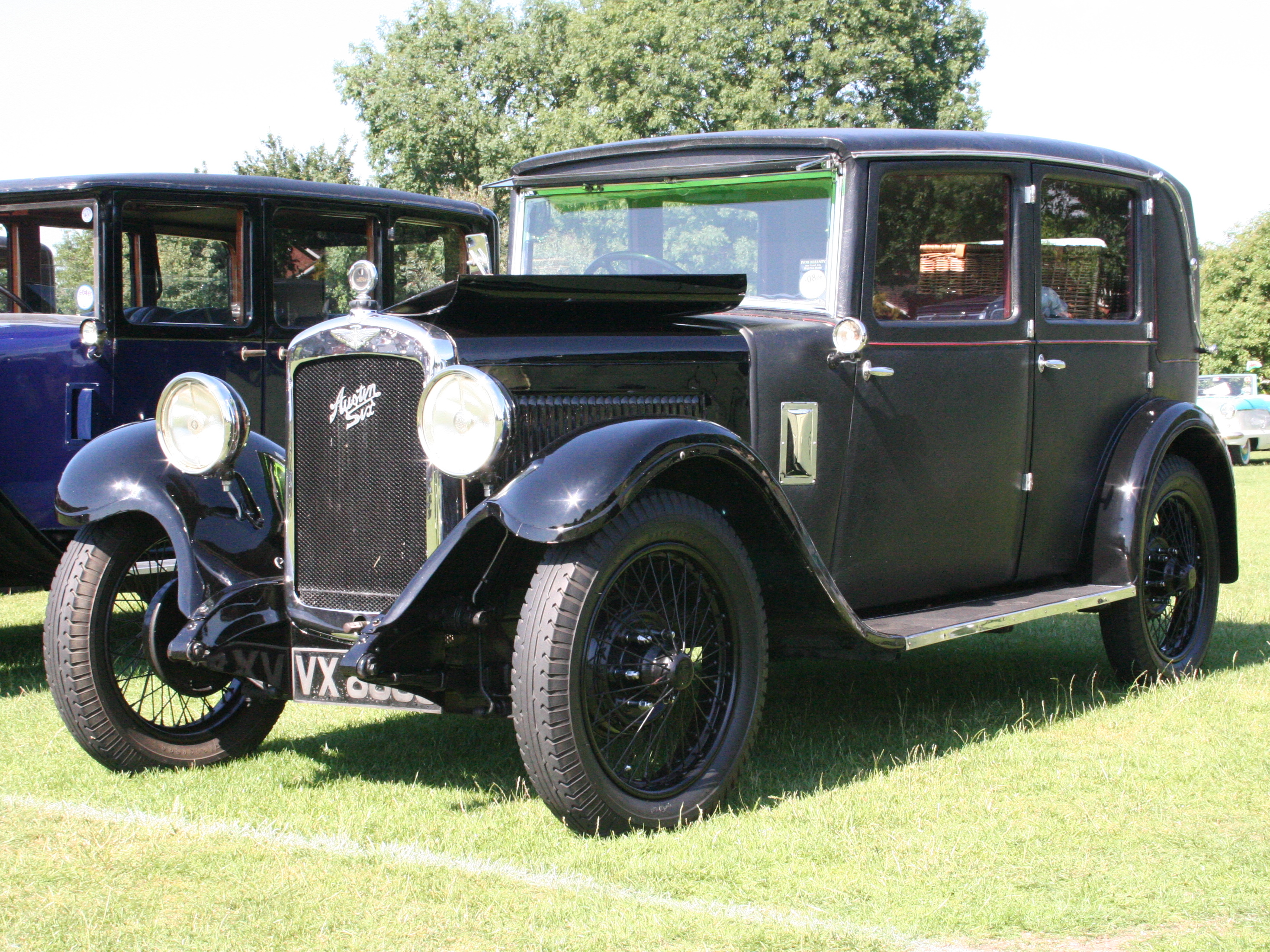 Austin Light Twelve-Six Clifton fabric saloon c. 1931-1932